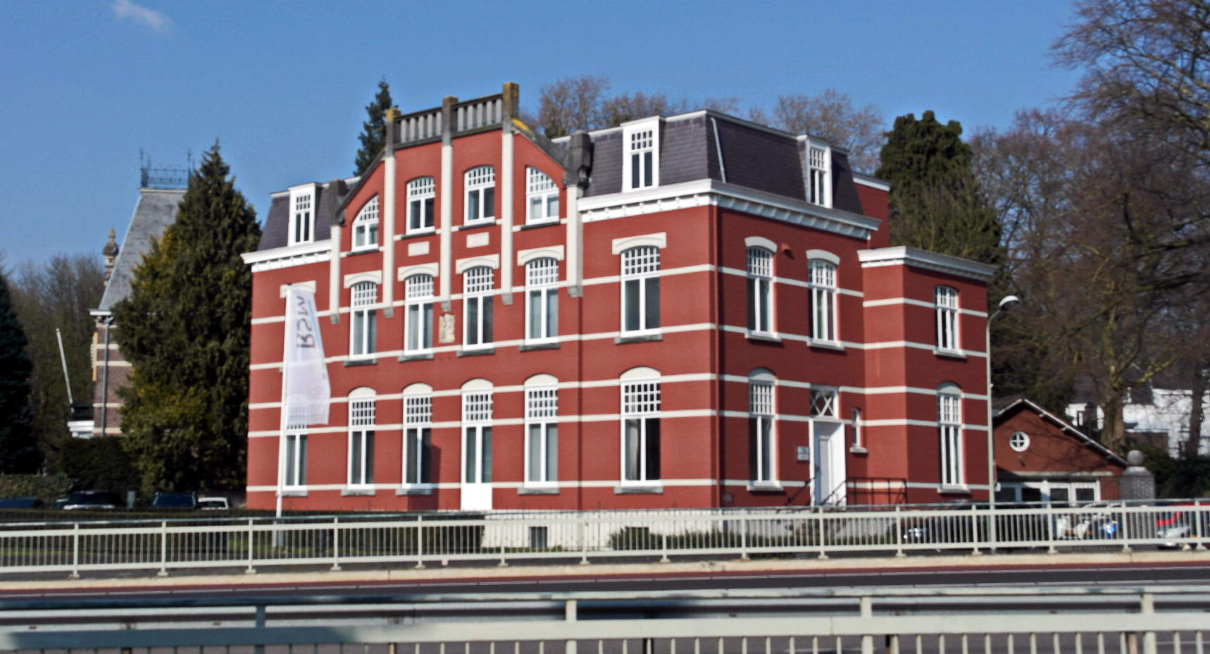 Early 20th-century villa on the corner of Sint Lambertuslaan and Prins Bisschopsingel in the Villapark quarter (officially Jekerkwartier) in Maastricht, the Netherlands.